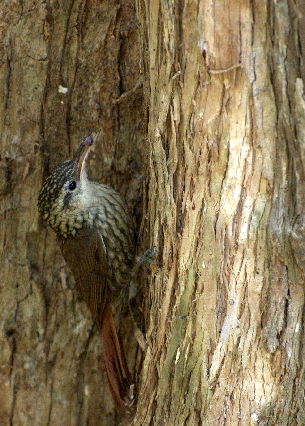 Scalloped Woodcreeper (Lepidocolaptes falcinellus) with prey. Horto Florestal de São Paulo